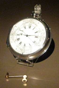 Photograph of John Harrison's H4 clock. Low resolution for illustrative purposes only, and to discourage potential commercial use. Shot without flash, 800 ASA setting.